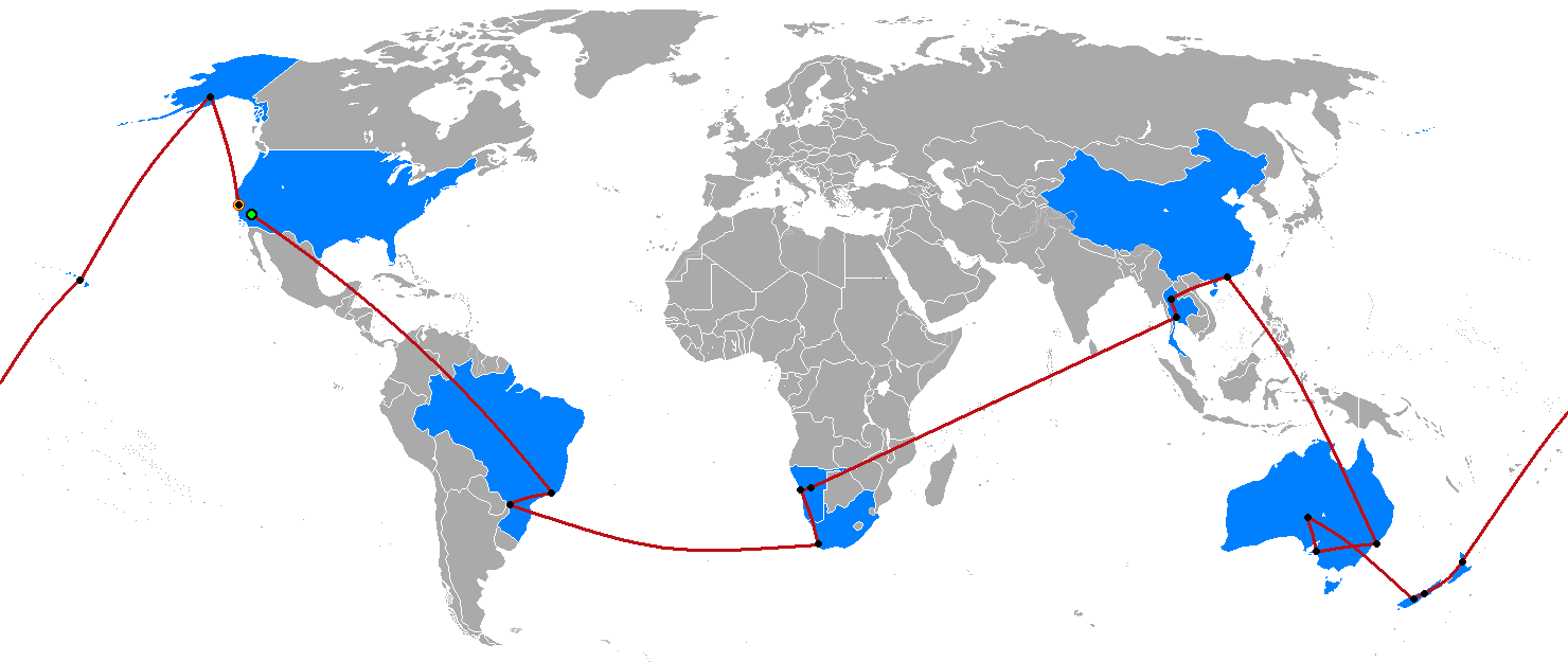 The Route Map of The Amazing Race 2, recreated with black dot leg stops